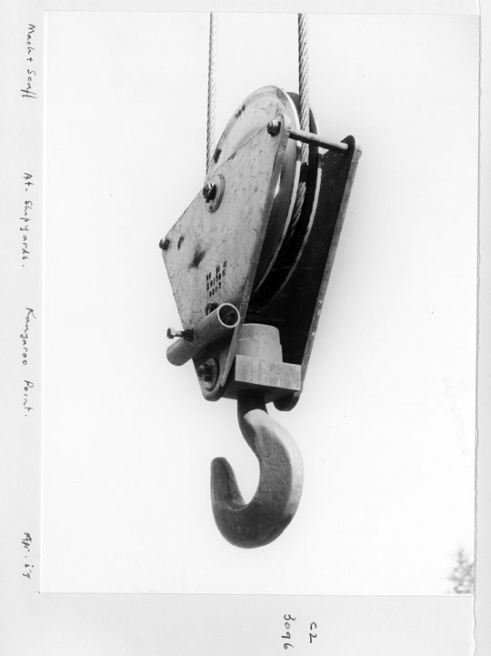 At shipyards, Kangaroo Point. (Original photo caption makes reference to the Office of the Chief Inspector, Machinery, Scaffolding and Weights and Measures)